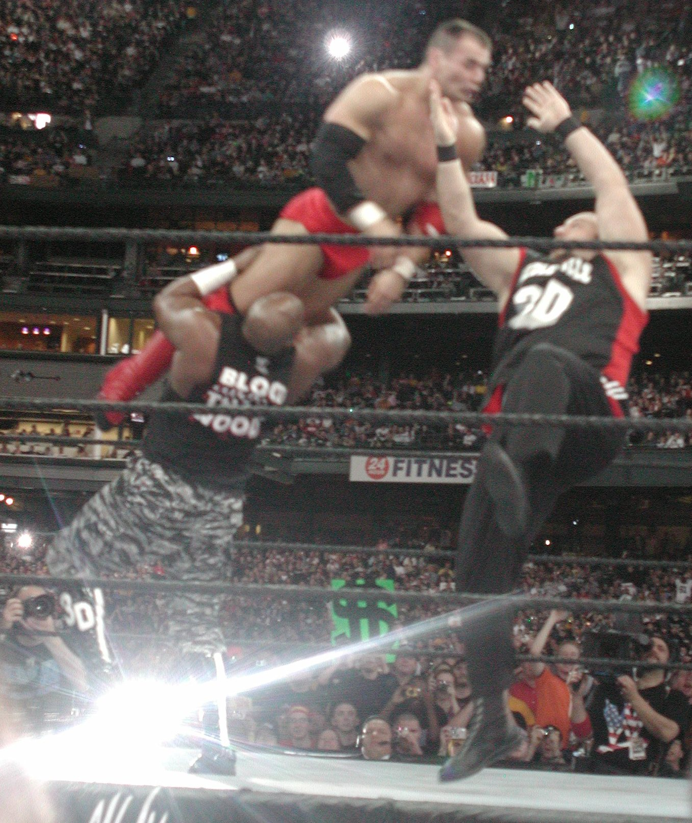 The Dudley Boyz hitting the 3D: Dudley Death Drop on Lance Storm on Heat before WrestleMania XIX at Safeco Field in Seattle, WA.